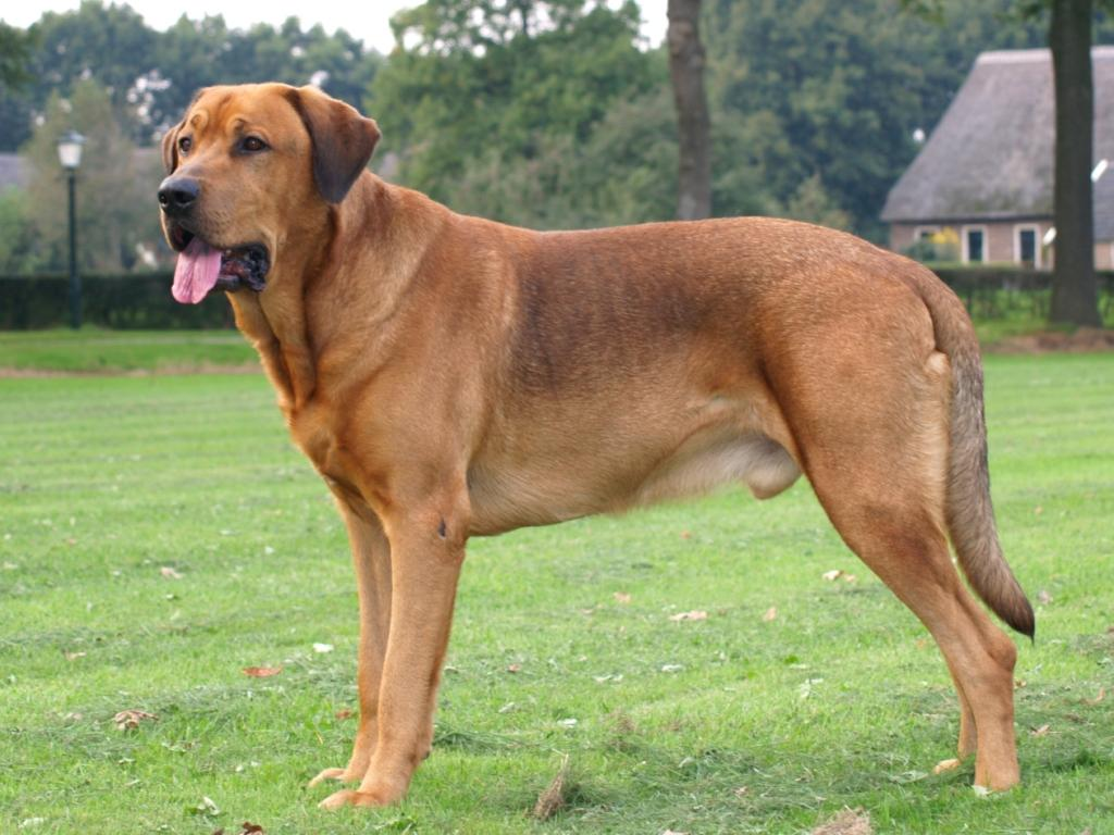 Male Broholmer